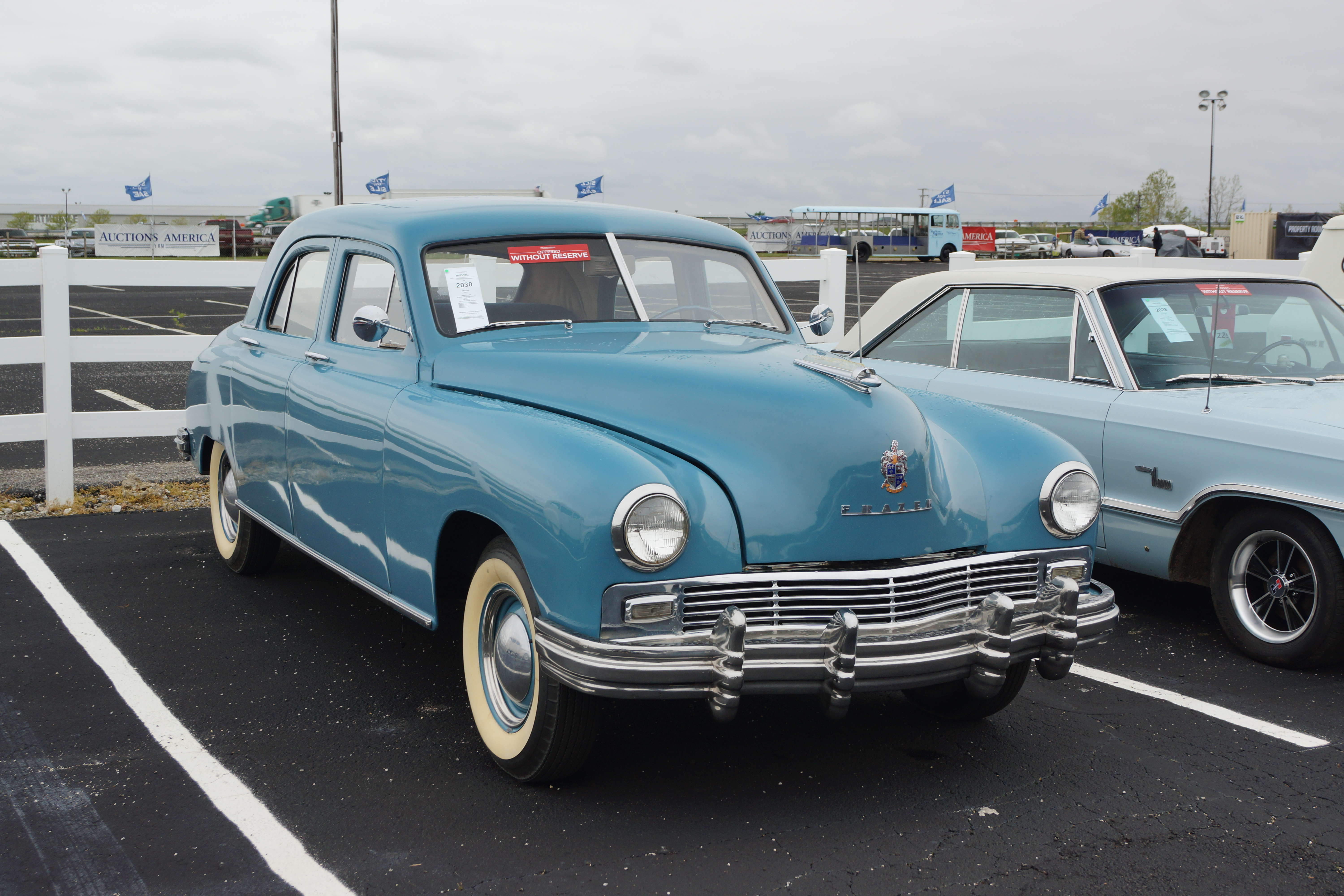 Auburn Spring RM Sotheby's Auctions America Auburn Auction Park Auburn, Indiana May 2017